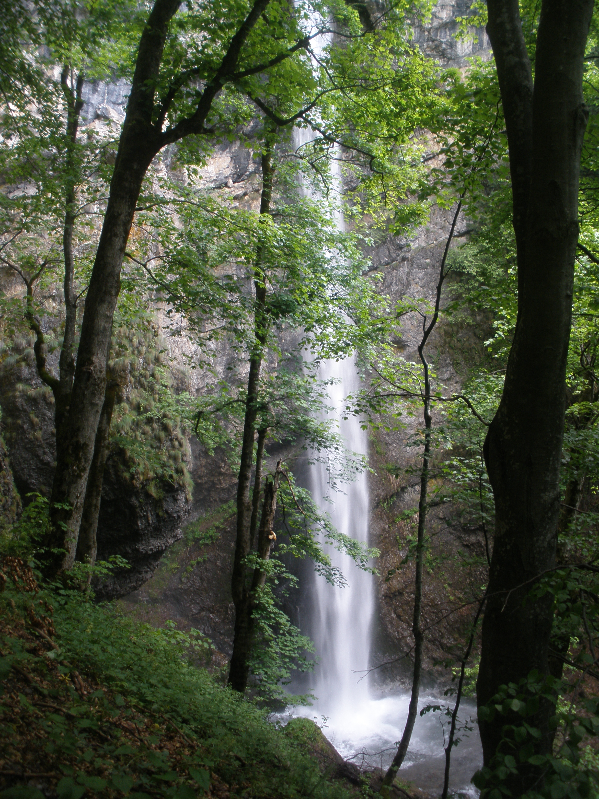 Suvcharsko praskalo waterfall, Bulgaria